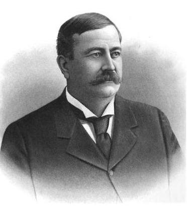 Cornelius C. Howell (1848–1902), Ohio businessman who consolidated the streetcar system of Knoxville, Tennessee, USA.